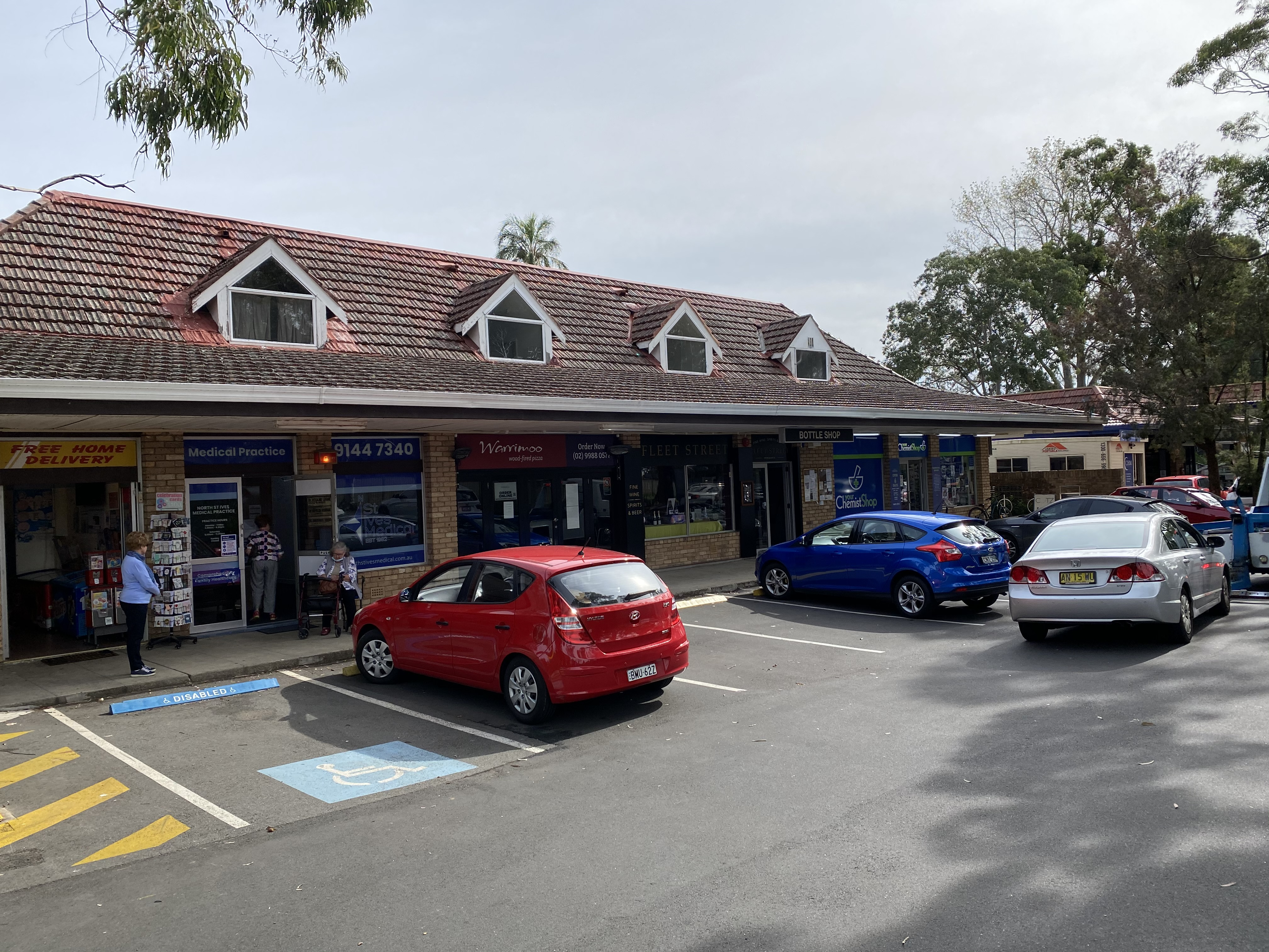 There are 5 shops in this photo, 4 small businesses located solely in St Ives Chase and one Blooms Chemist franchise. A greater description of these can be found in the St Ives Chase Wikipedia page under 'Commercial Zone'.